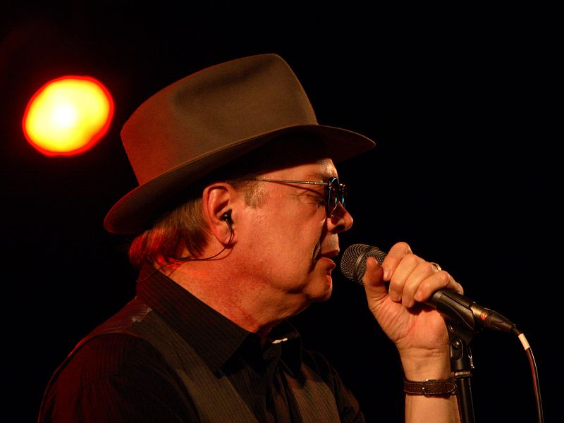 Mitch Ryder, on stage, Chemnitz/Saxony 2008.